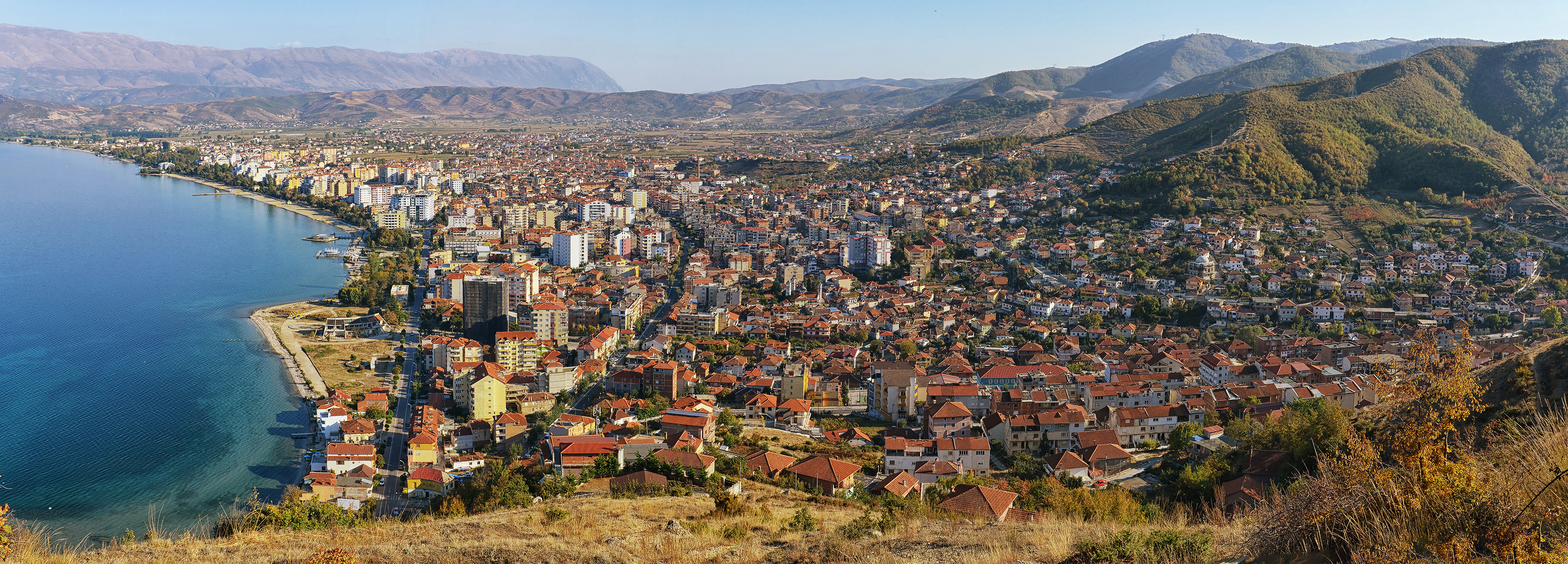 View of Pogradec, Albania from the Castle Hill (Kalaja)